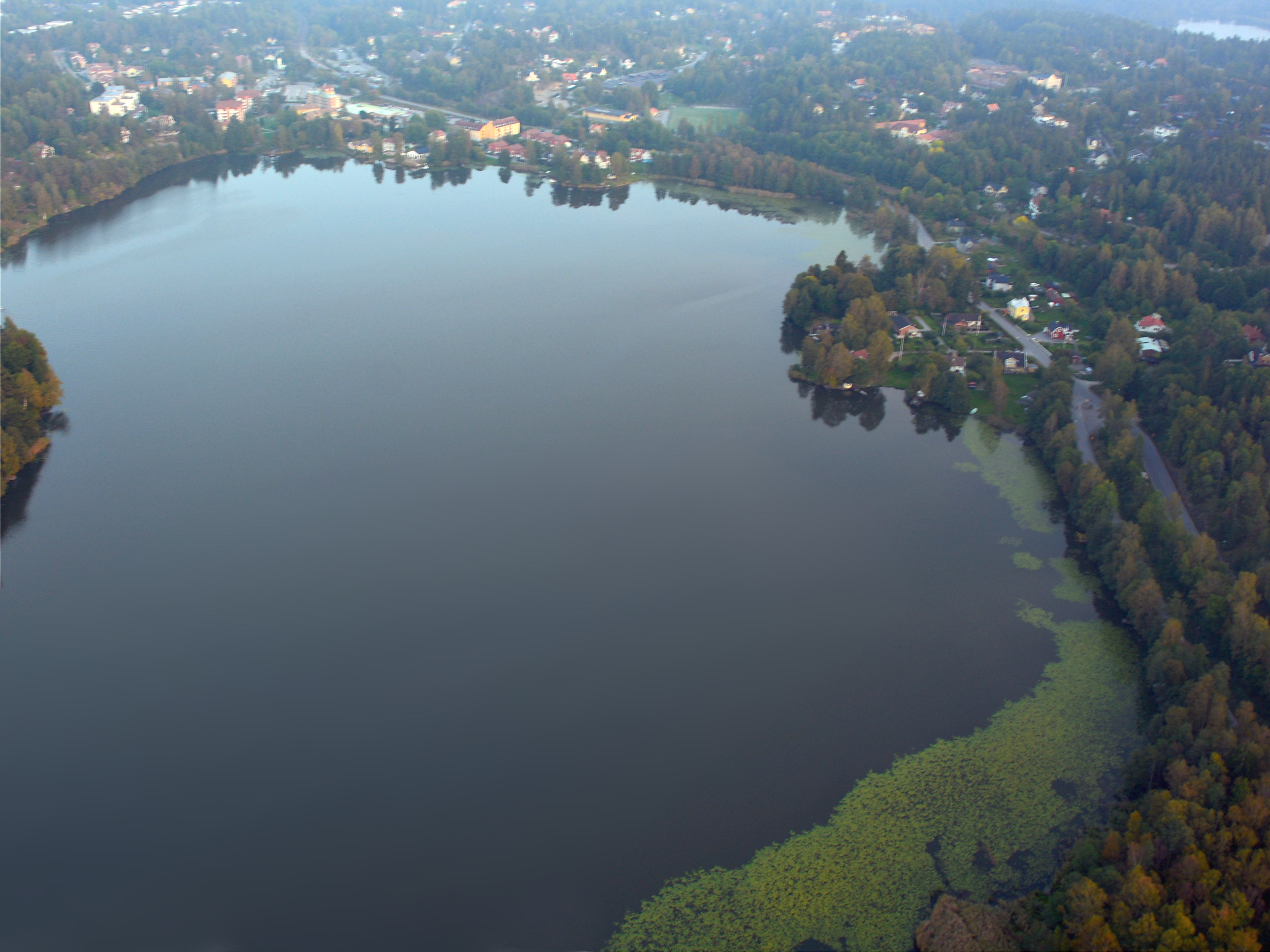 The lake Flaten in Salem municipality, Sweden.